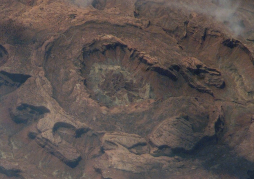 Upheaval Dome, Utah, United States